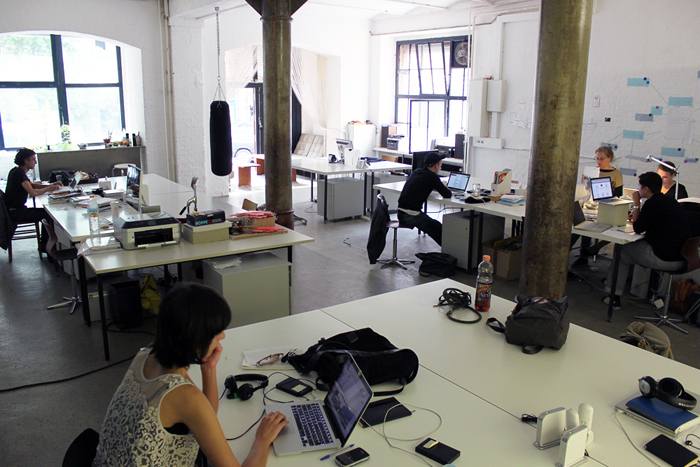 A coworking space in Berlin.